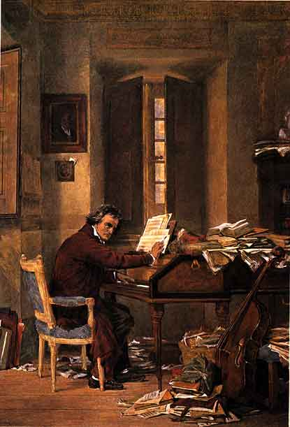 Ludwig van Beethoven in his Study; from a painting by Carl Schloesser